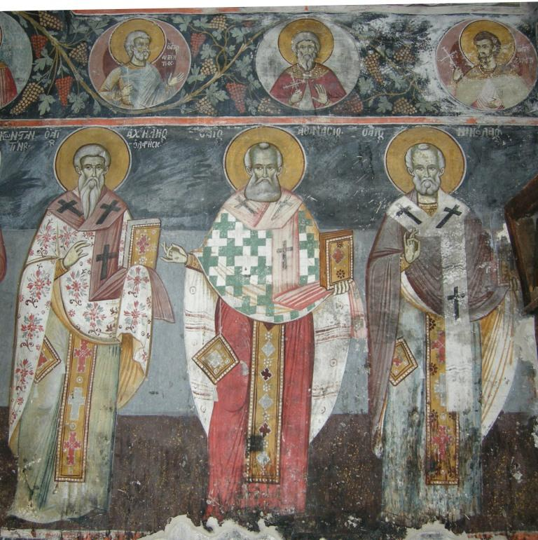 Fresco in St. Germanus Church.